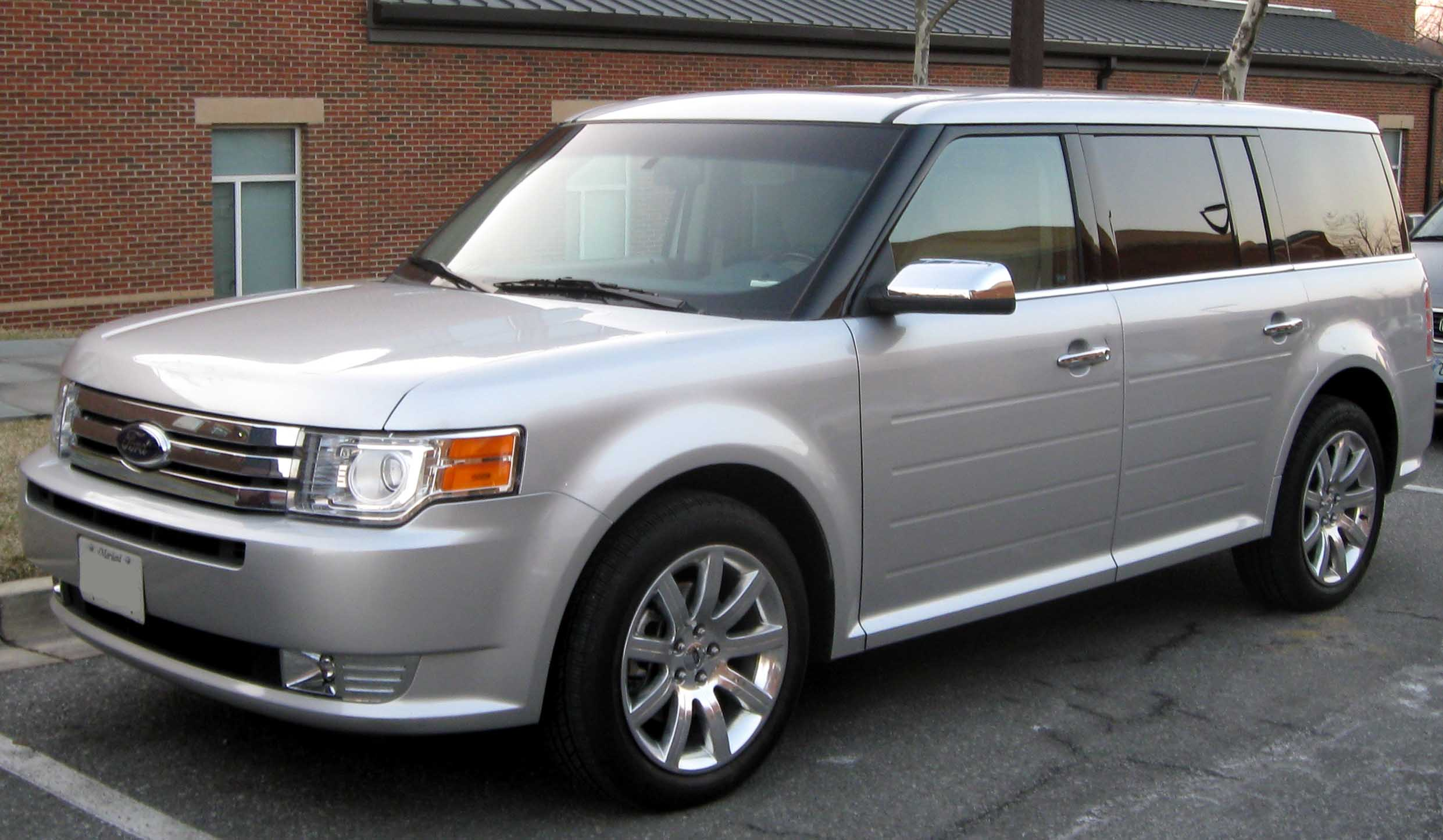 2009 Ford Flex photographed in College Park, Maryland, USA.